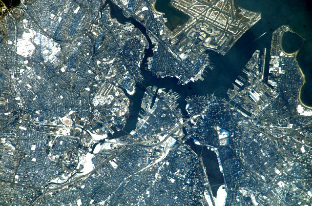 An astronaut photo of Boston taken from the International Space Station (ISS).